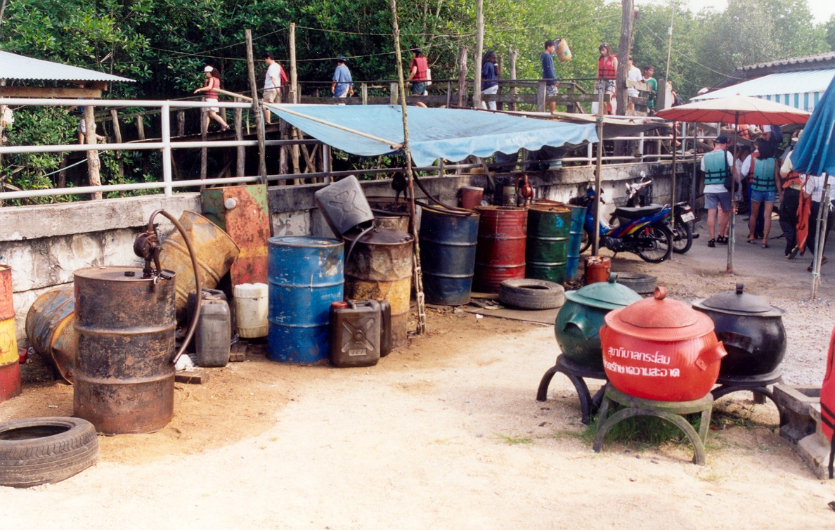 Separated garbage collection in Thailand